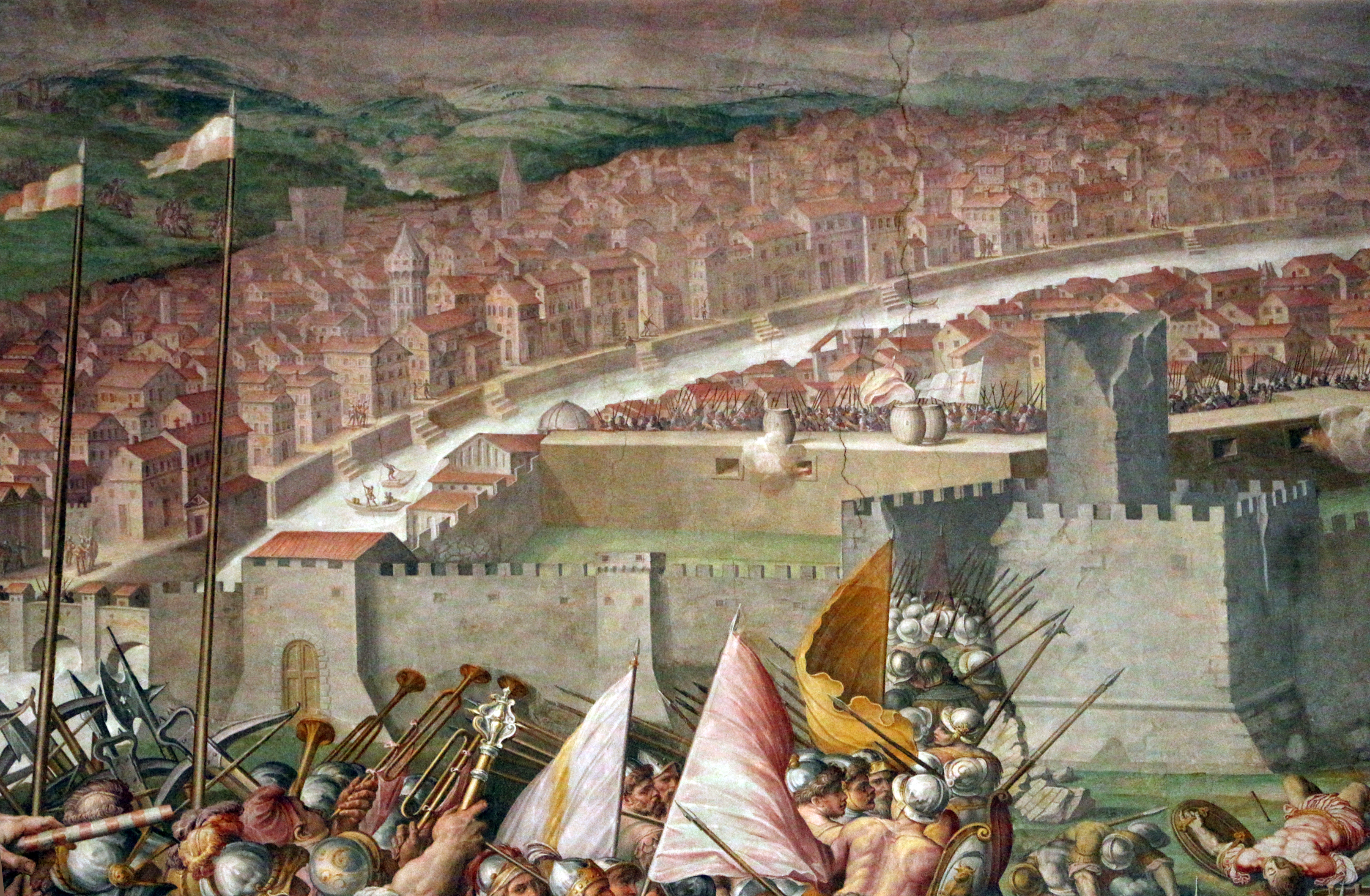 Salone dei Cinquecento - Vasari's paintings